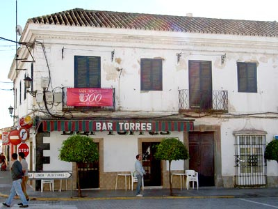 Bar Torres in San Roque, Cadiz, Spain